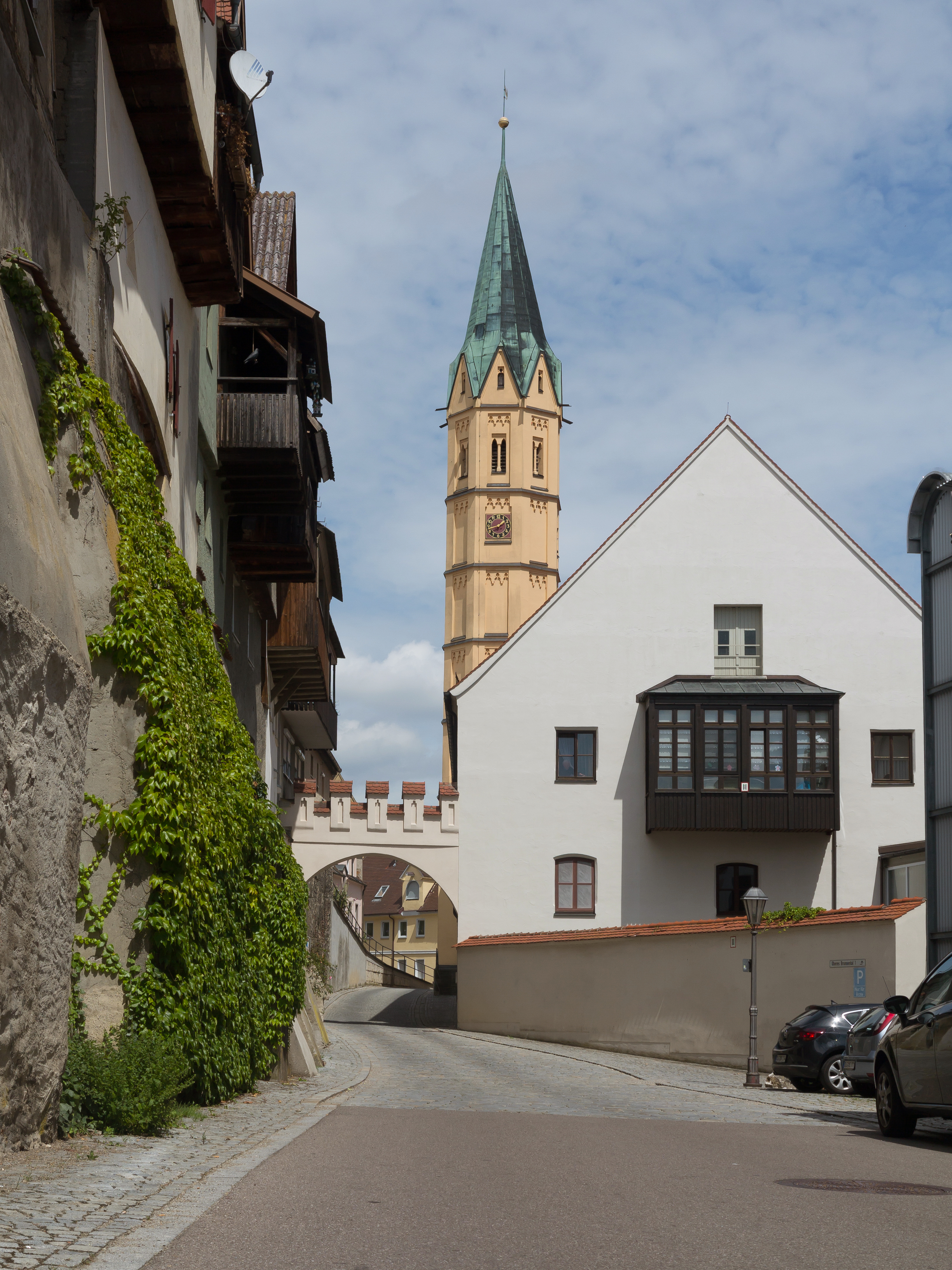 Lauingen, church (Spitalkirche Sankt Alban) in the streetThis is a photograph of an architectural monument.